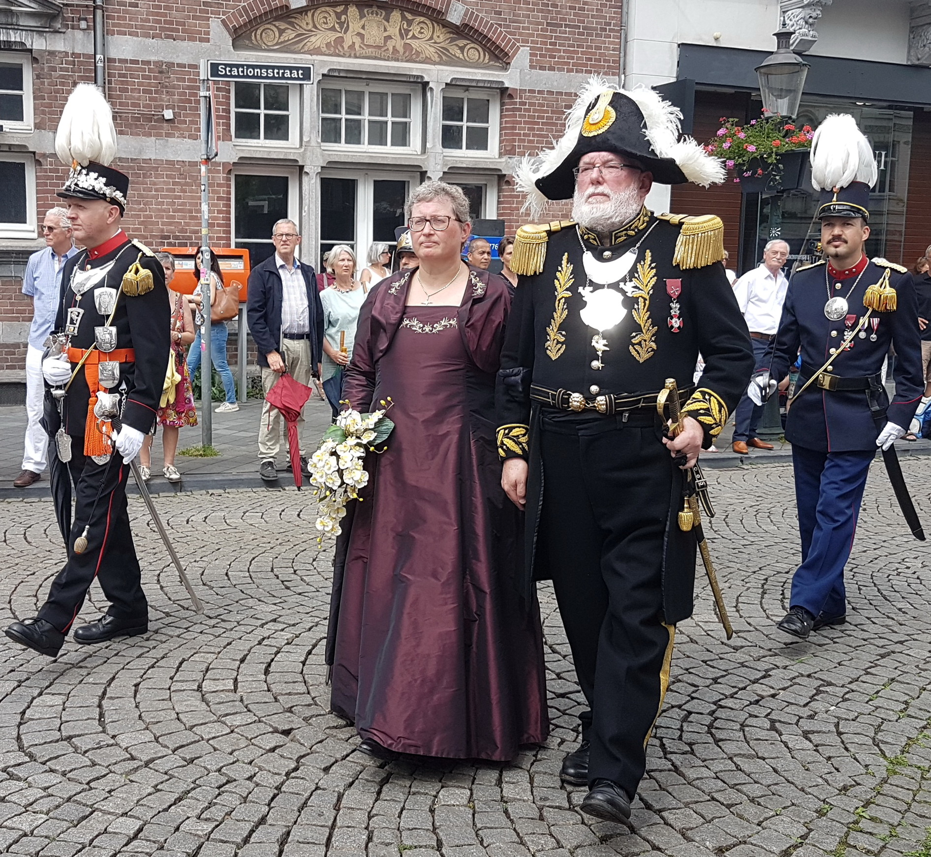 Participants in a historic religious procession during the 2018 Heiligdomsvaart (Relics Pilgrimage) in Maastricht, Netherlands. The history of this seven-yearly catholic pilgrimage goes back to the Middle Ages. The first 'modern' version took place in 1874. On both Sundays of the 11-day festival, a procession is held in which the main relics and other devotional objects are exhibited. This photo was taken in Stationsstraat during the (first) procession on Sunday 27 May 2018. This particular group represents a civic guard militia group from Geleen, the Schutterij HH. Marcellinus & Petrus.